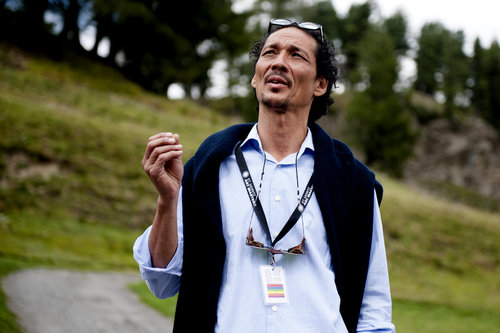 St. Moritz Art Masters 2011(c)SAM / Alexandra Pauli